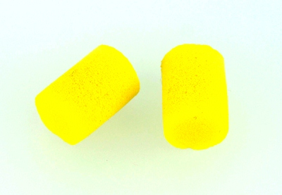 Ear plug